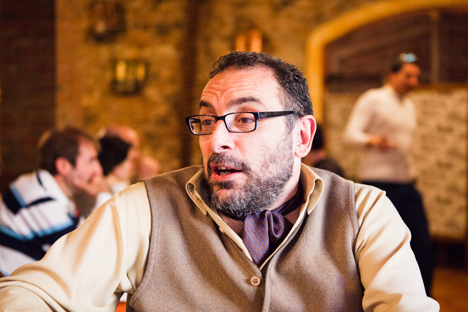 Javier Romañach at the 2012 IP (the Interesting People Network) global meeting held in Perafort (Tarragona, Spain)